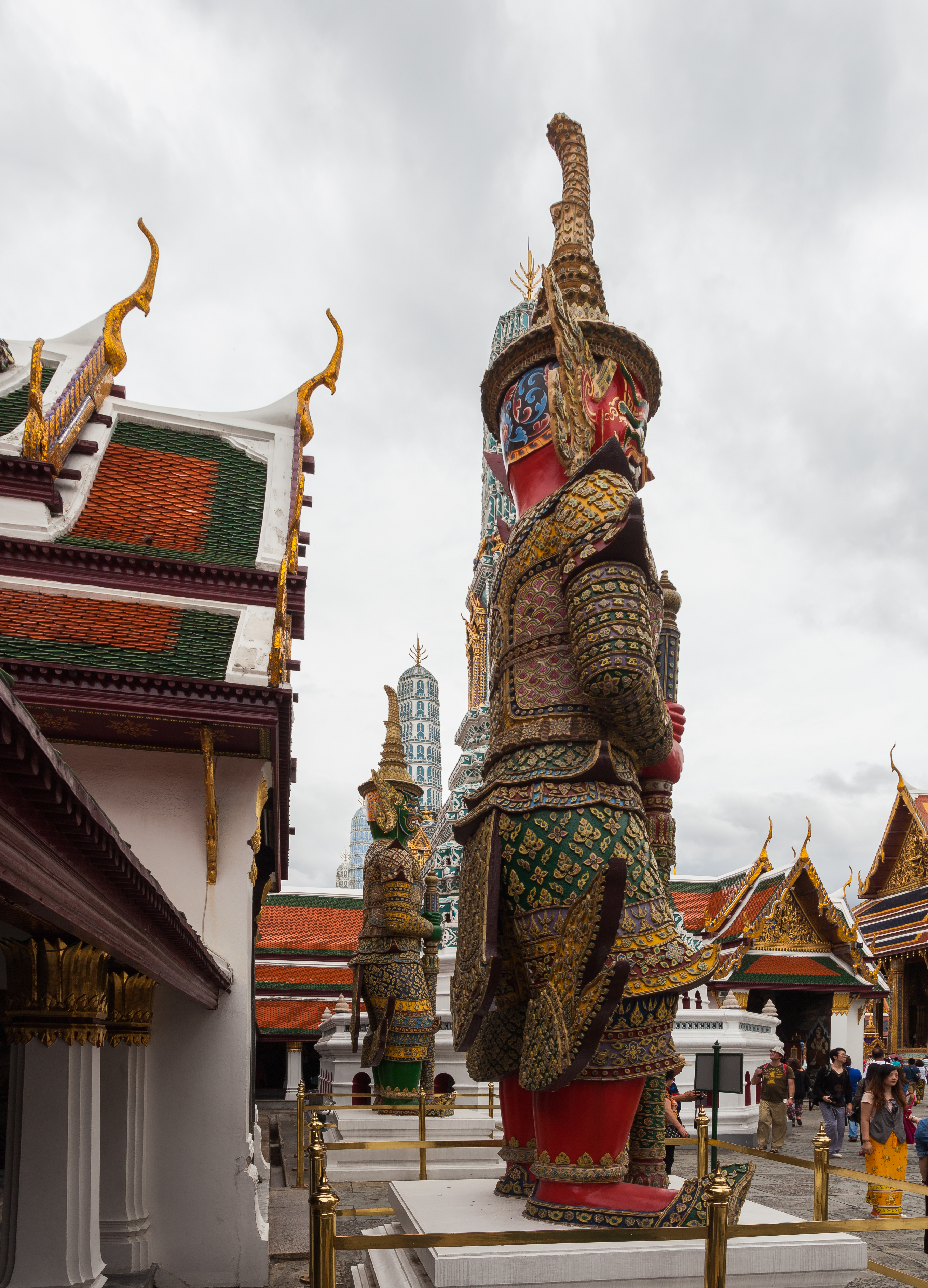 Grand Palace, Bangkok, Thailand